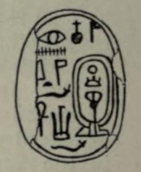 Scarab of Neferhotep I giving the name of his father Haankhef, 1897 drawing by Flinders Petrie.